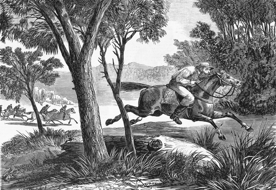 Australian bushranger Dan Morgan being chased, wood engraving.